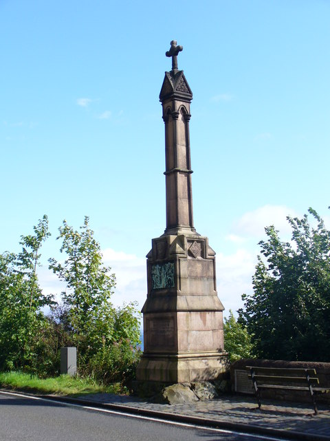 Alexander III Memorial Monument above Pettycur Bay, Kinghorn. This is where the king fell from his horse to his death on a stormy night in 1286.